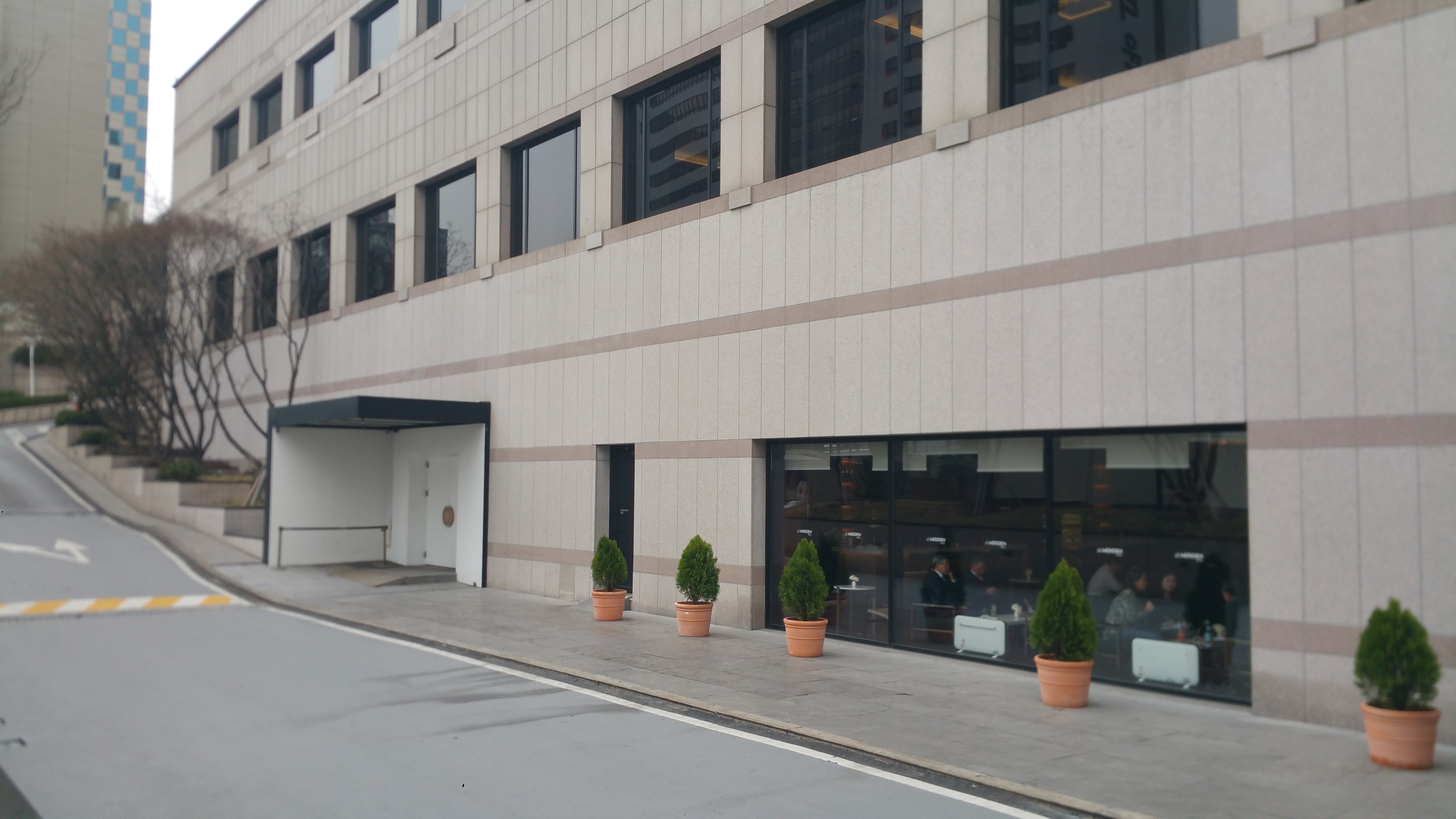 Le Meridien Hotel, closed entrance of Burning Sun nightclub, 120 Bongeunsa-ro, Gangnam-gu, Seoul 06124, South Korea